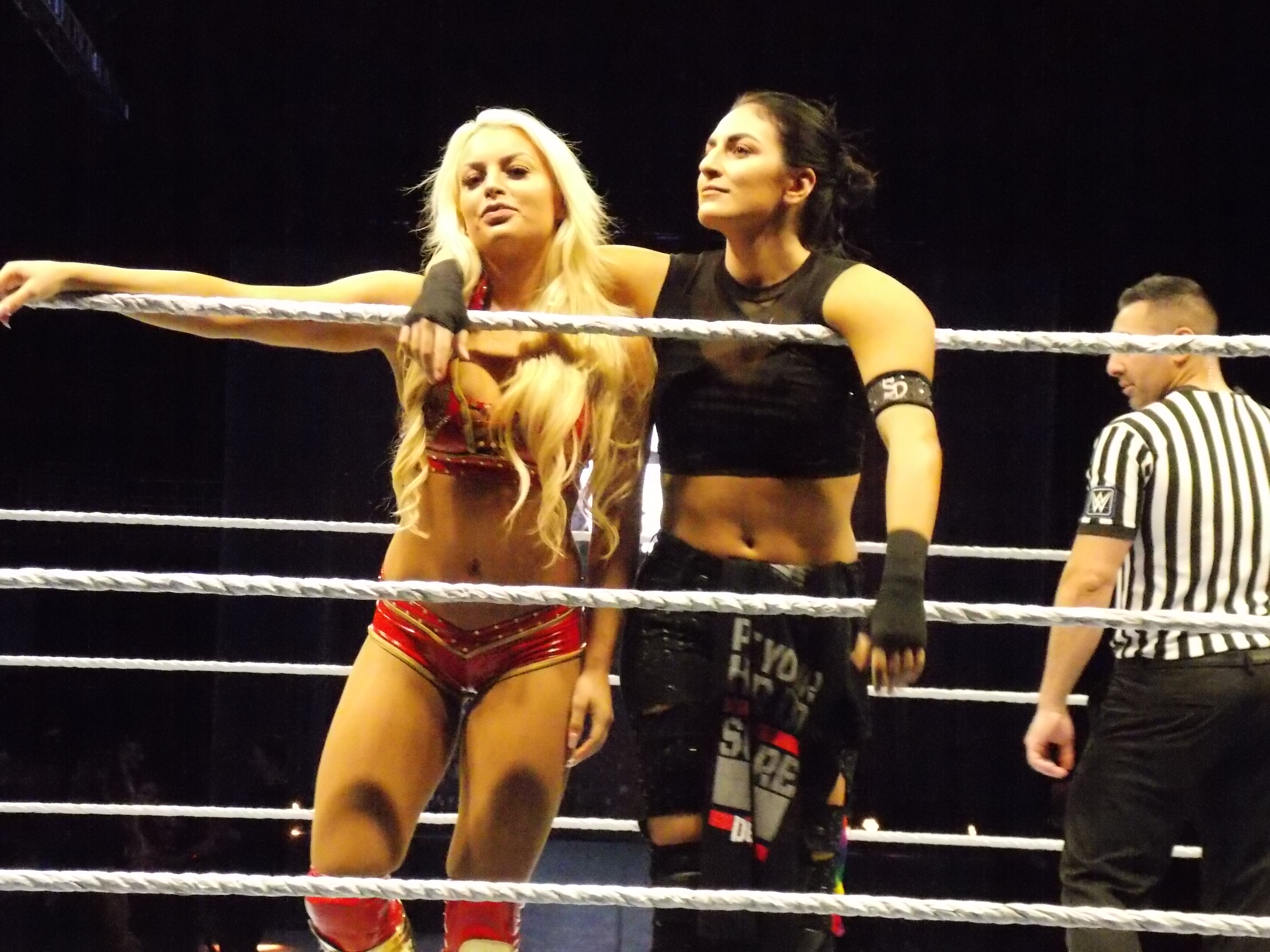 Sonya Deville & Mandy Rose at a WWE Live Event House Show in Omaha, Nebraska, USA on Sunday, August 18, 2019